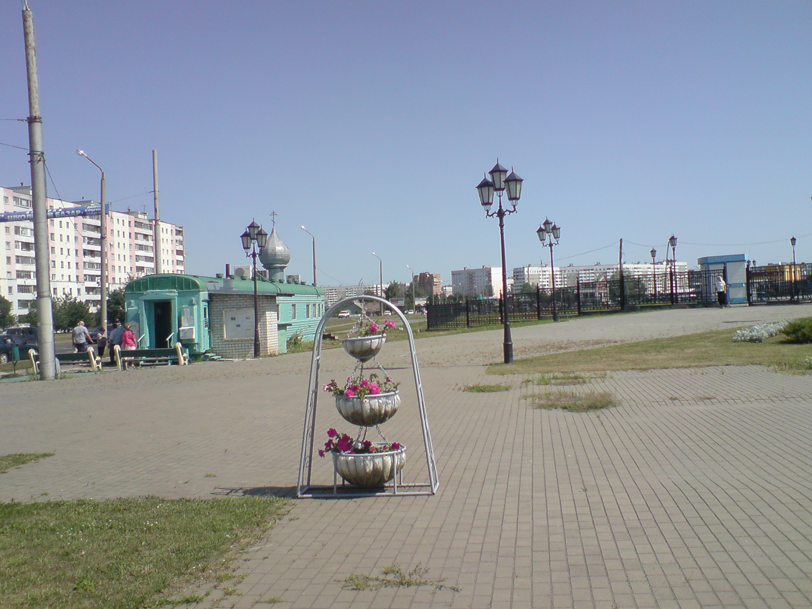 Kastryčnicki District, Mogilev, Belarus